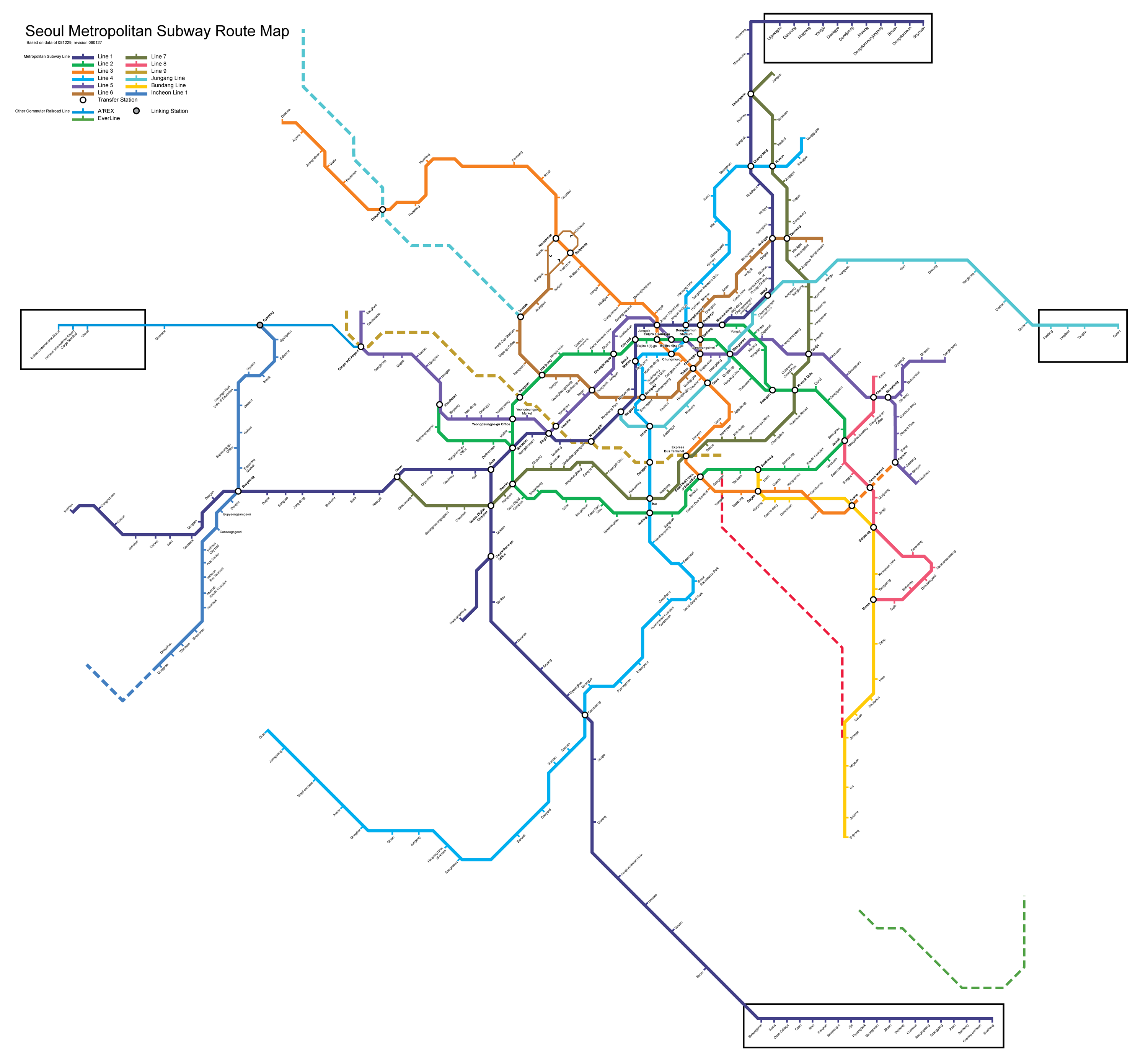 A map of Seoul Metropolitan Subway. English Version.